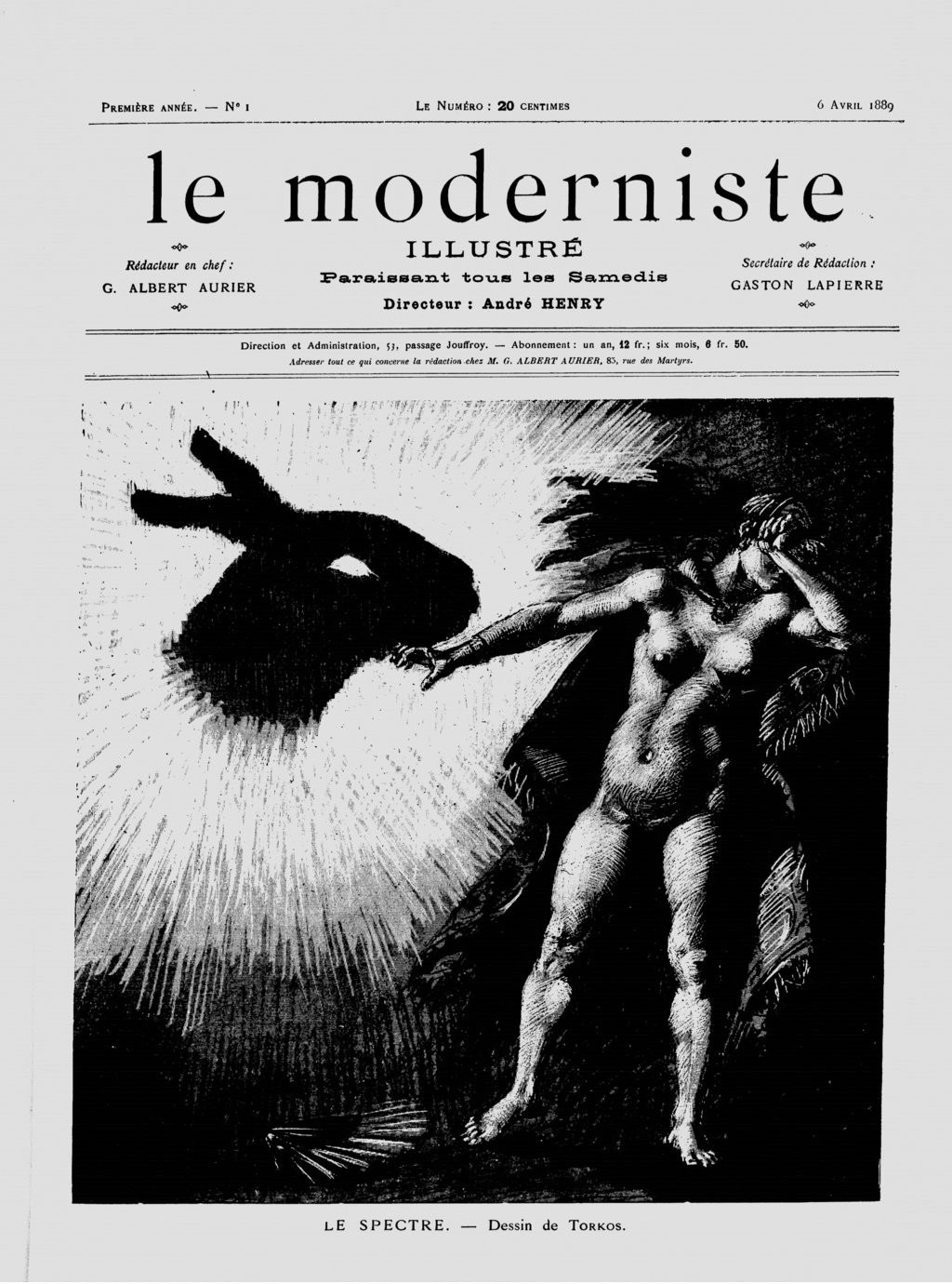 Front page of the first issue of the French magazine Le Moderniste Illustré